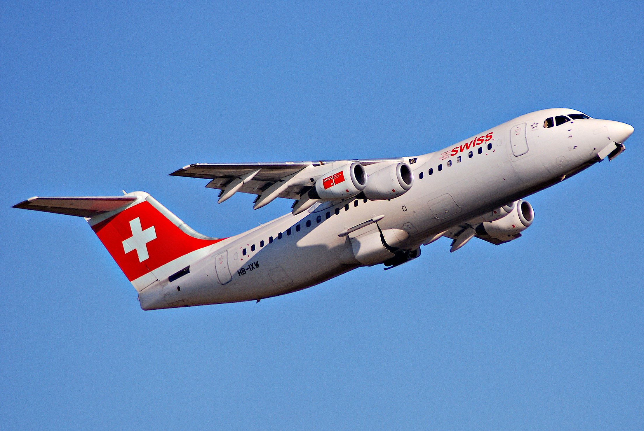 First flight: October 20, 1995...(c/n E3272) 01/11/1995 Crossair HB-IXW 31/03/2002 Swiss International Airlines HB-IXW